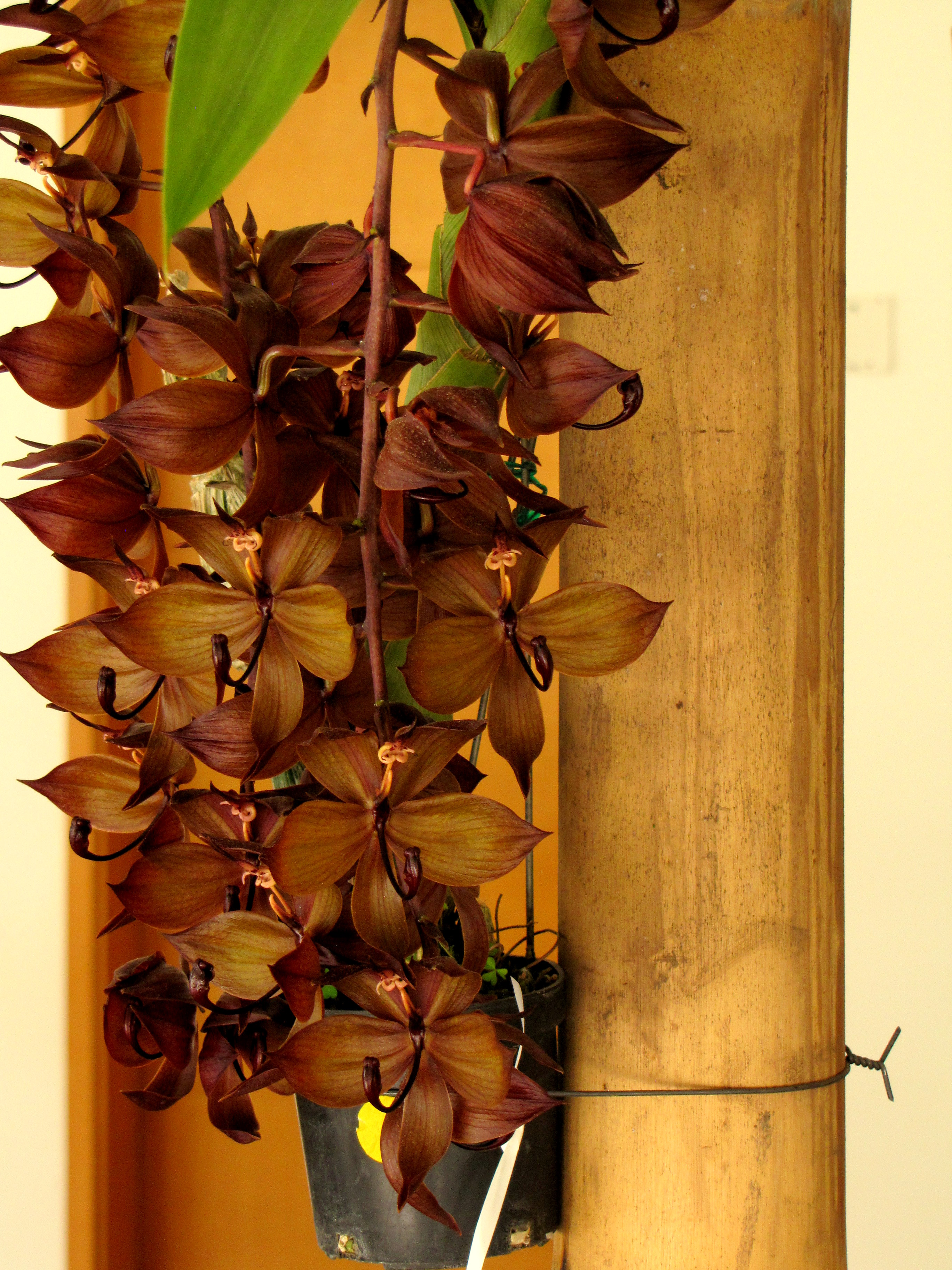 Cycnoches cooperi